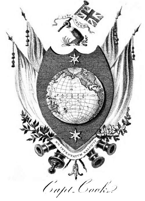 Book-plate devised for Captain Cook's son. Source: Castle, Egerton (November, 1893) English Book-Plates, Ancient and Modern by Egerton Castle, Egerton Castle, p. 114